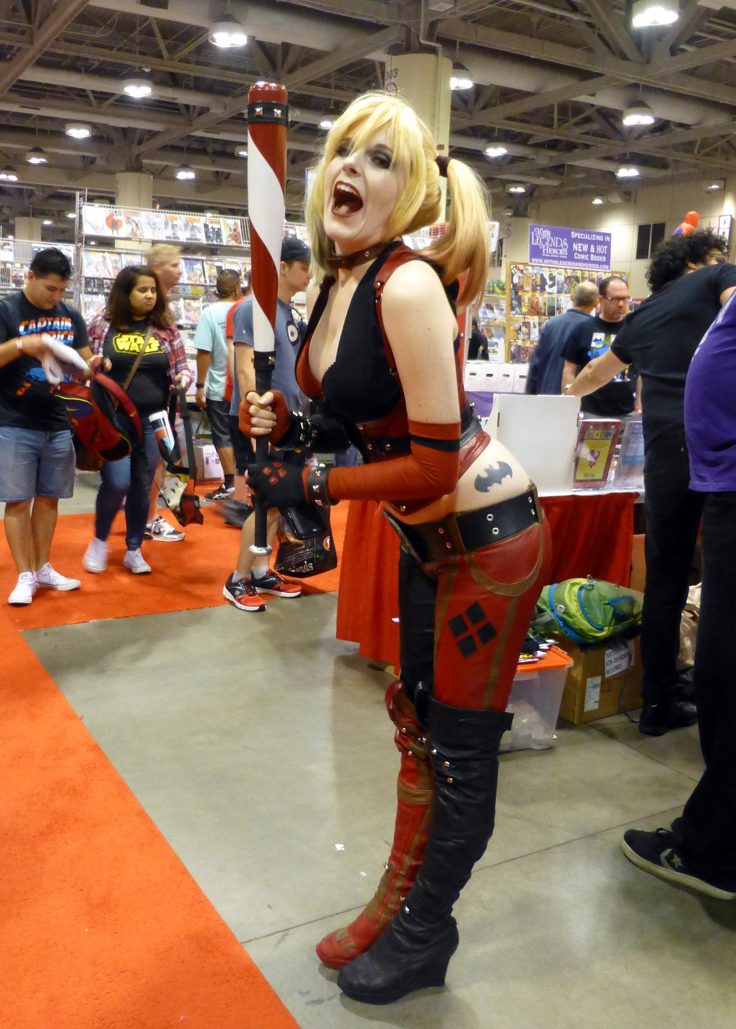 Lossien as Harley Quinn Cosplay at Fan Expo Canada in 2015.